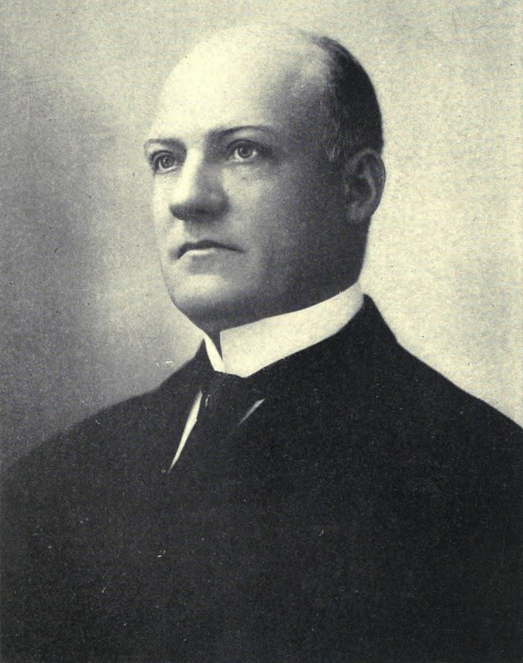 Heber M. Wells was Utah's first governor after attaining statehood.